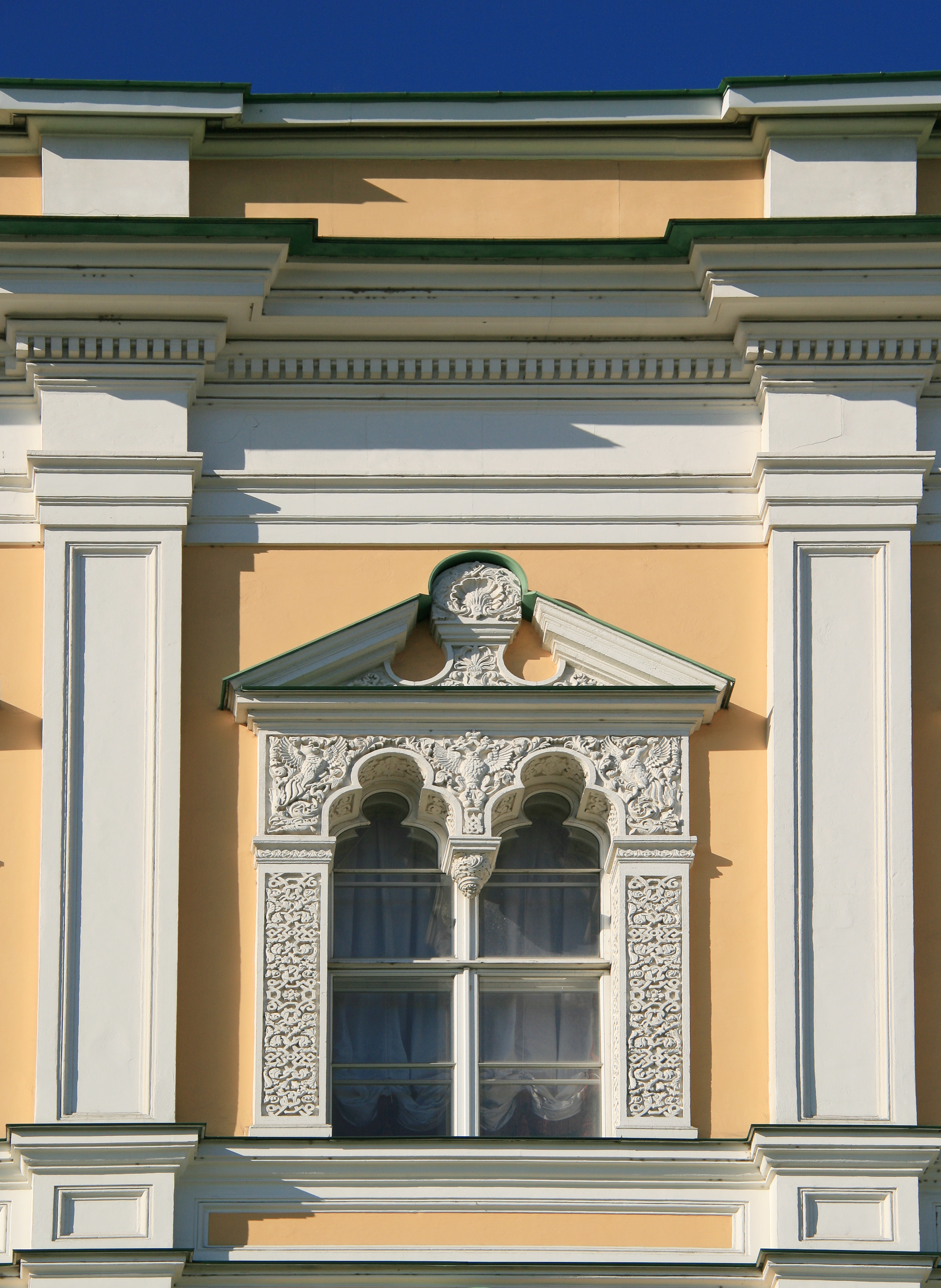 Facade fragment of Grand Kremlin Palace, Moscow